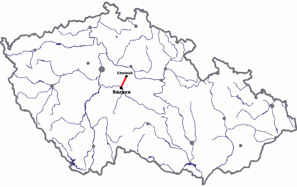 Devils furrow, path between fords on Labe and Sazava river